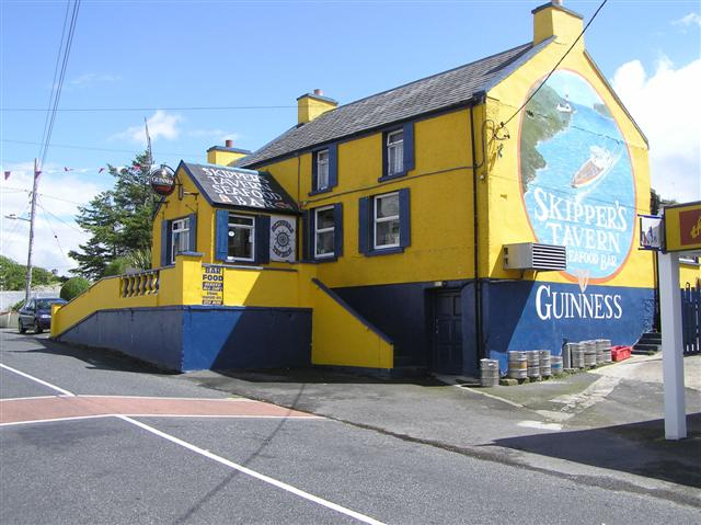 Skipper's, Burtonport One of two excellent fish restaurants near the port, the other one is called the Lobster Pot.